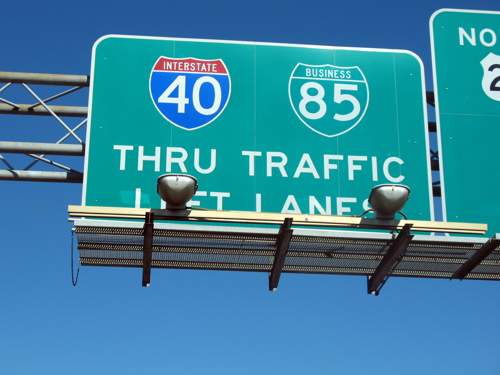 Interstate 40 and Business Loop 85 overhead sign in Greensboro, North Carolina.